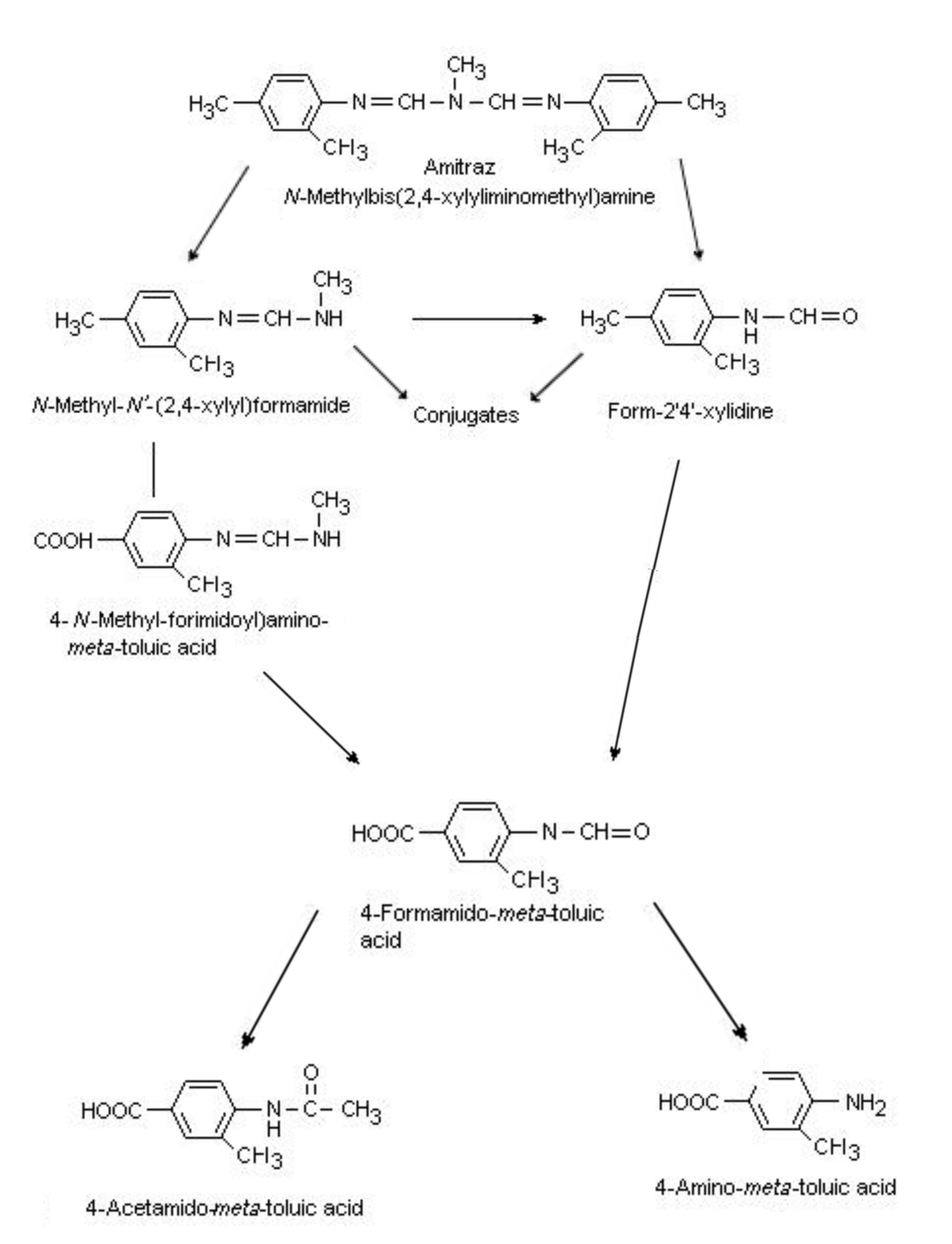 This file shows the amitraz metabolism and its different metabolites in animals.